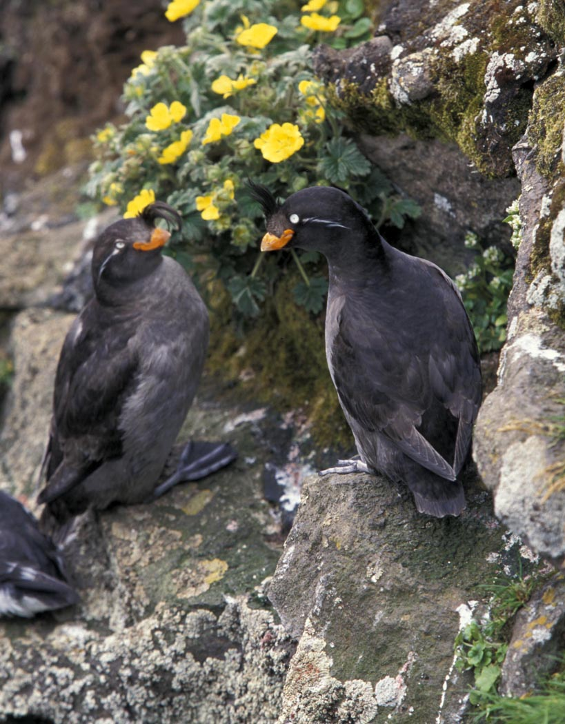 Pair of Crested Auklets (Aethia cristatella), Alaska Maritime National Wildlife Refuge